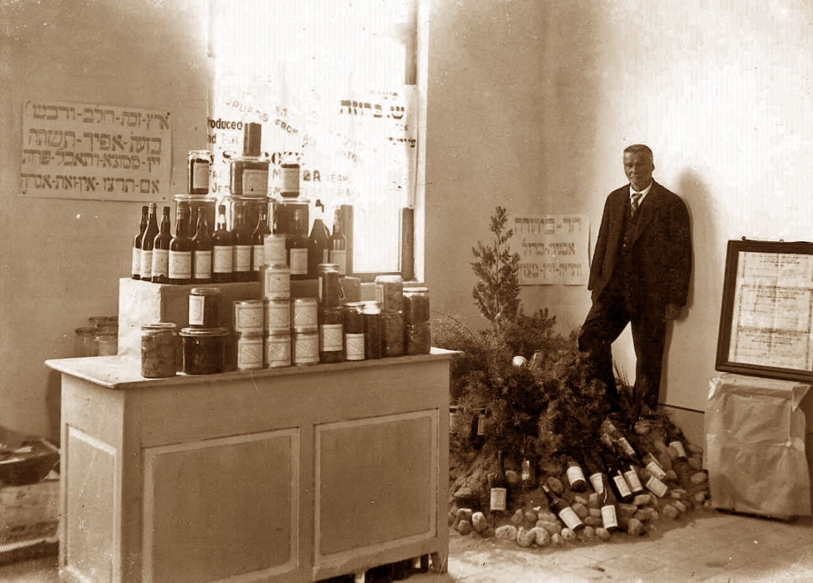 Farmer Shmuel Broza from Motza agricultural colony near Jerusalem